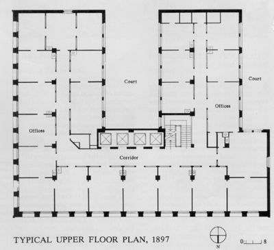 Upper level floor plans drawn for the Guarentee building, Buffalo, New York